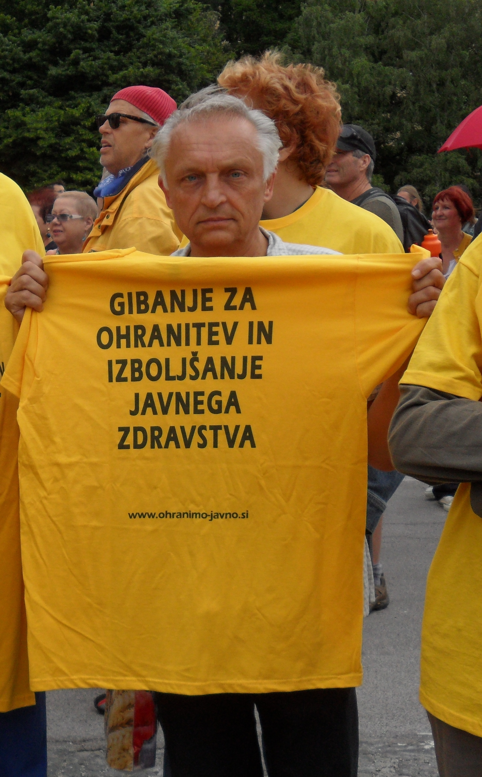 Rally in support of public health care in Ljubljana, Slovenia: On June 25, 2013, the National Day in Slovenia, cca. 5000 protestors gathered in Ljubljana in support of public health care.